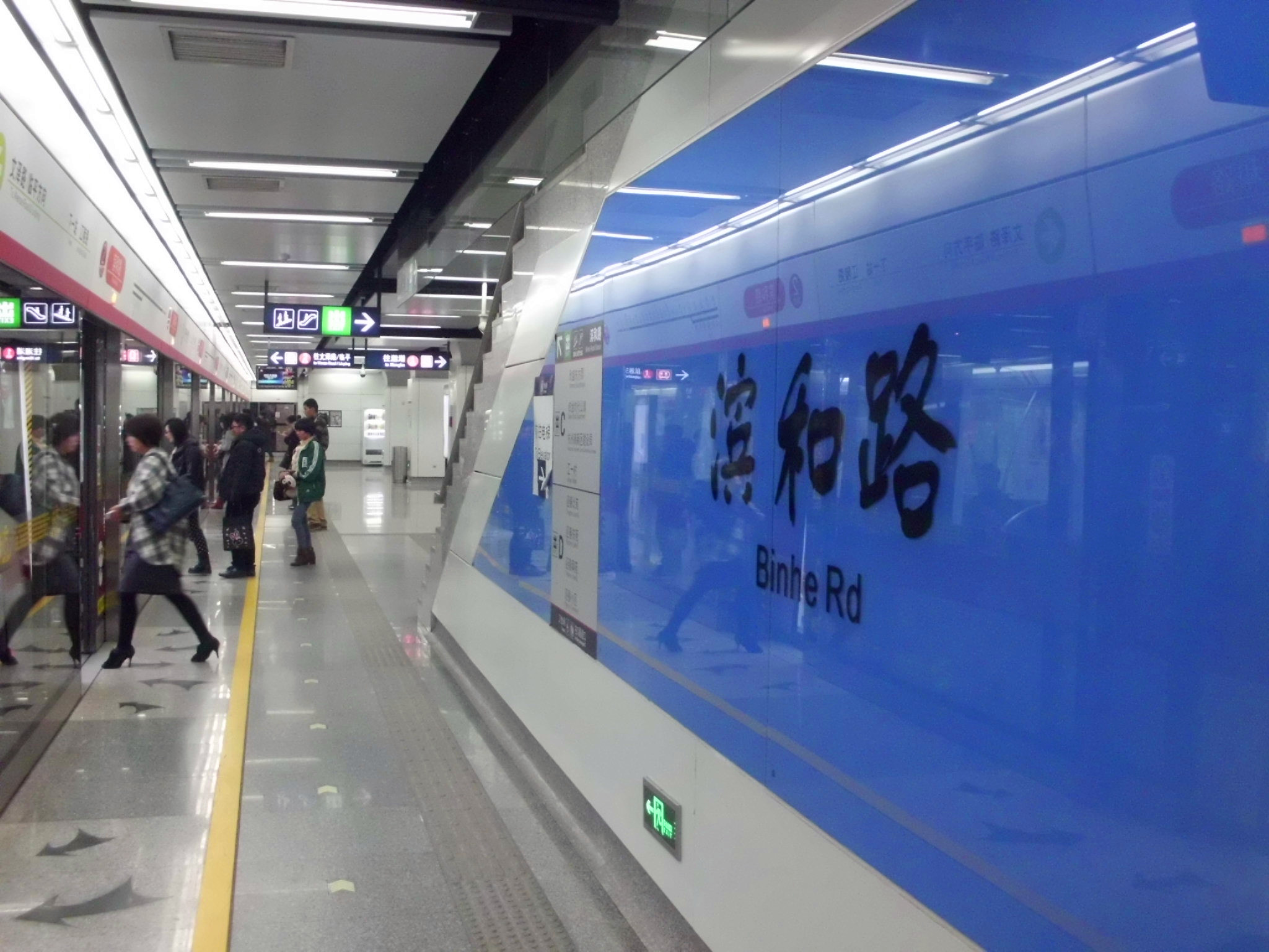 Binhe Road Station